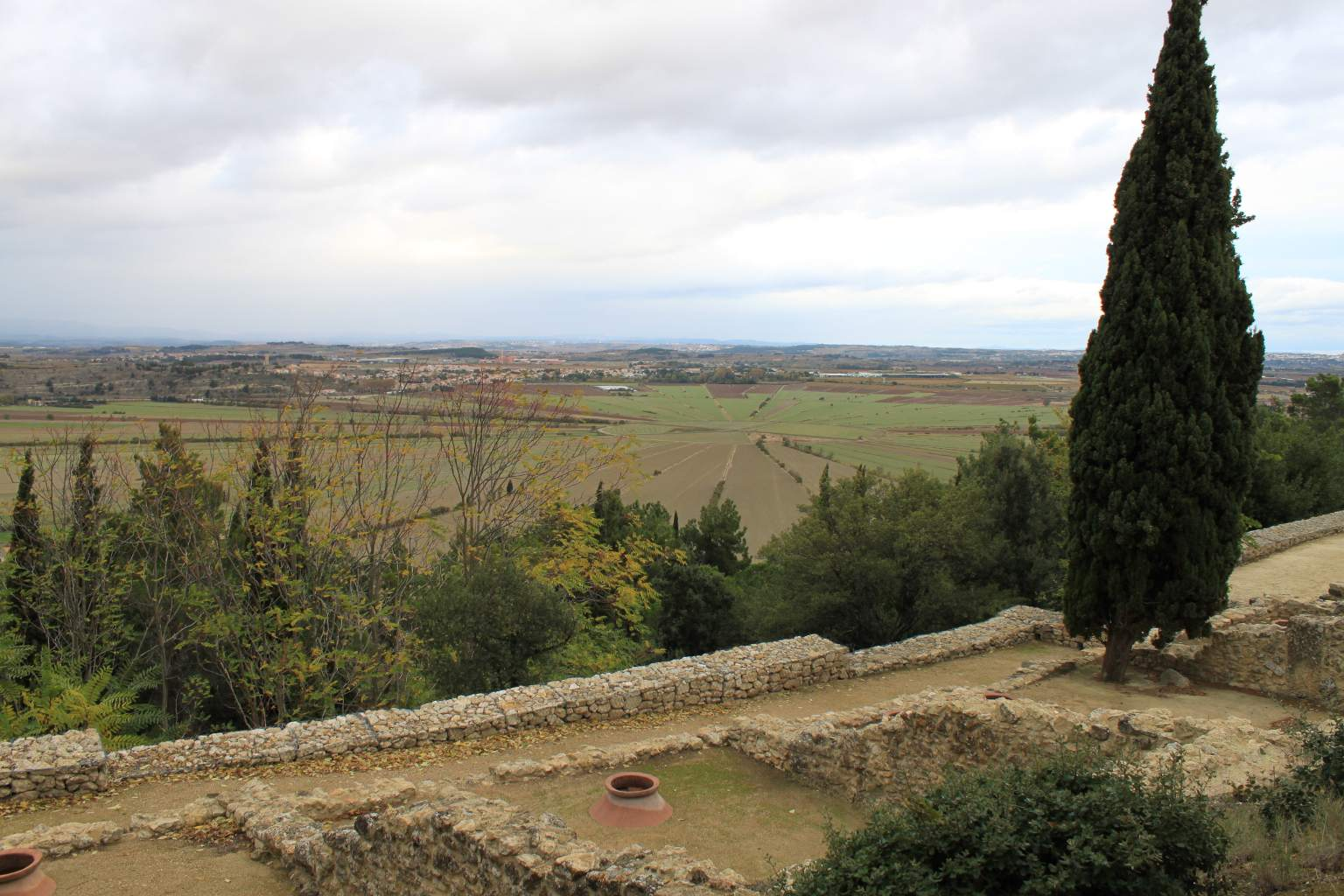 Oppidum d'Ensérune, France, above the "pond of Montady".